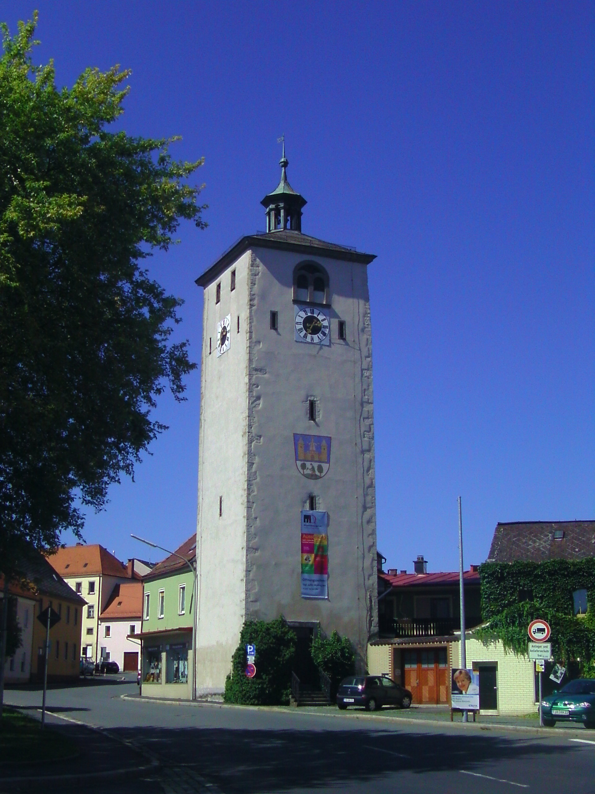 "Klettnersturm" in Tirschenreuth